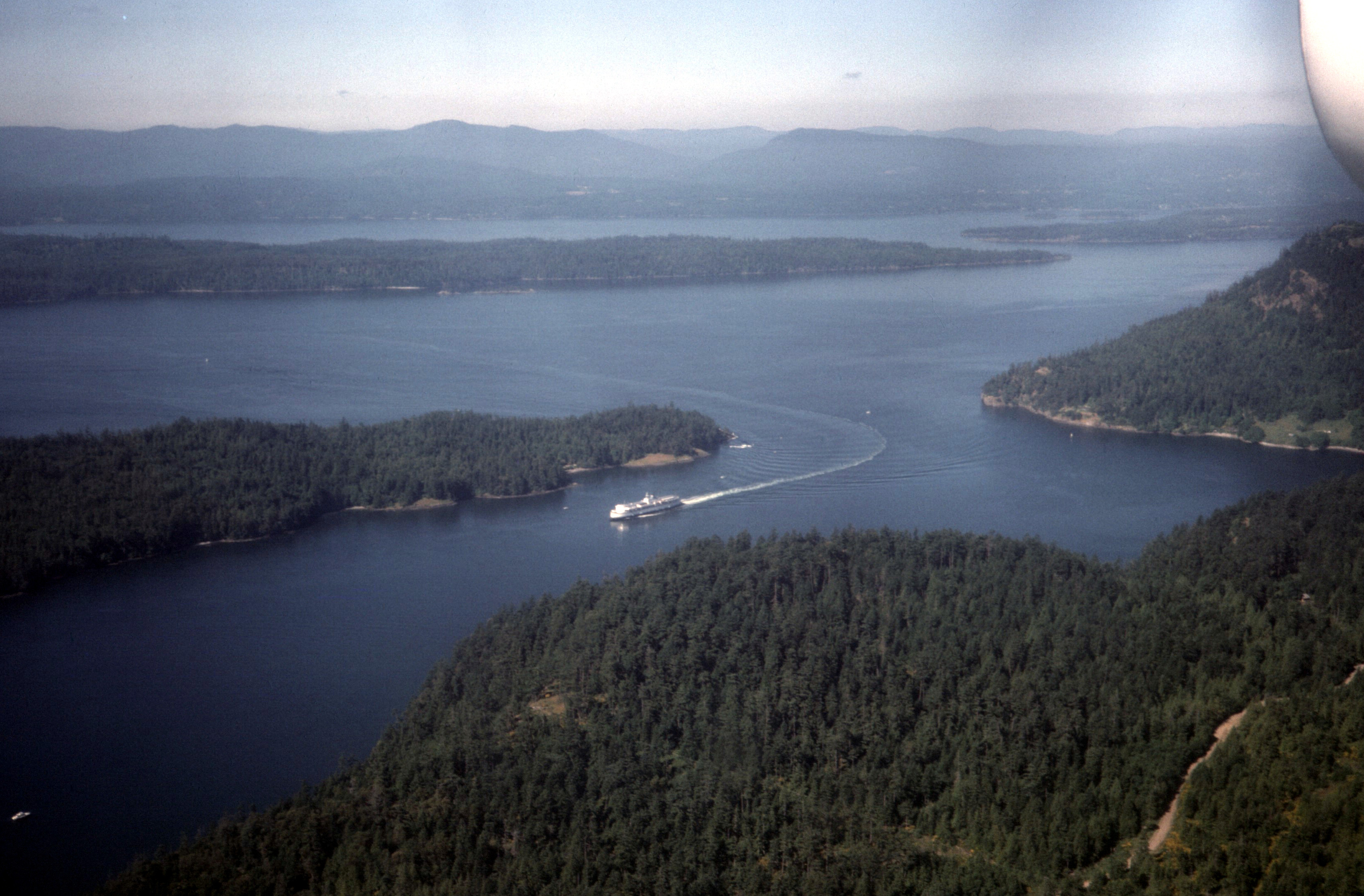 Aerial view of Active Pass, August 1974.